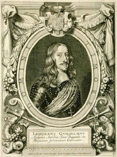 Antique print of a portrait of Leopold Wilhelm, Archduke of Austria (1614-1662)